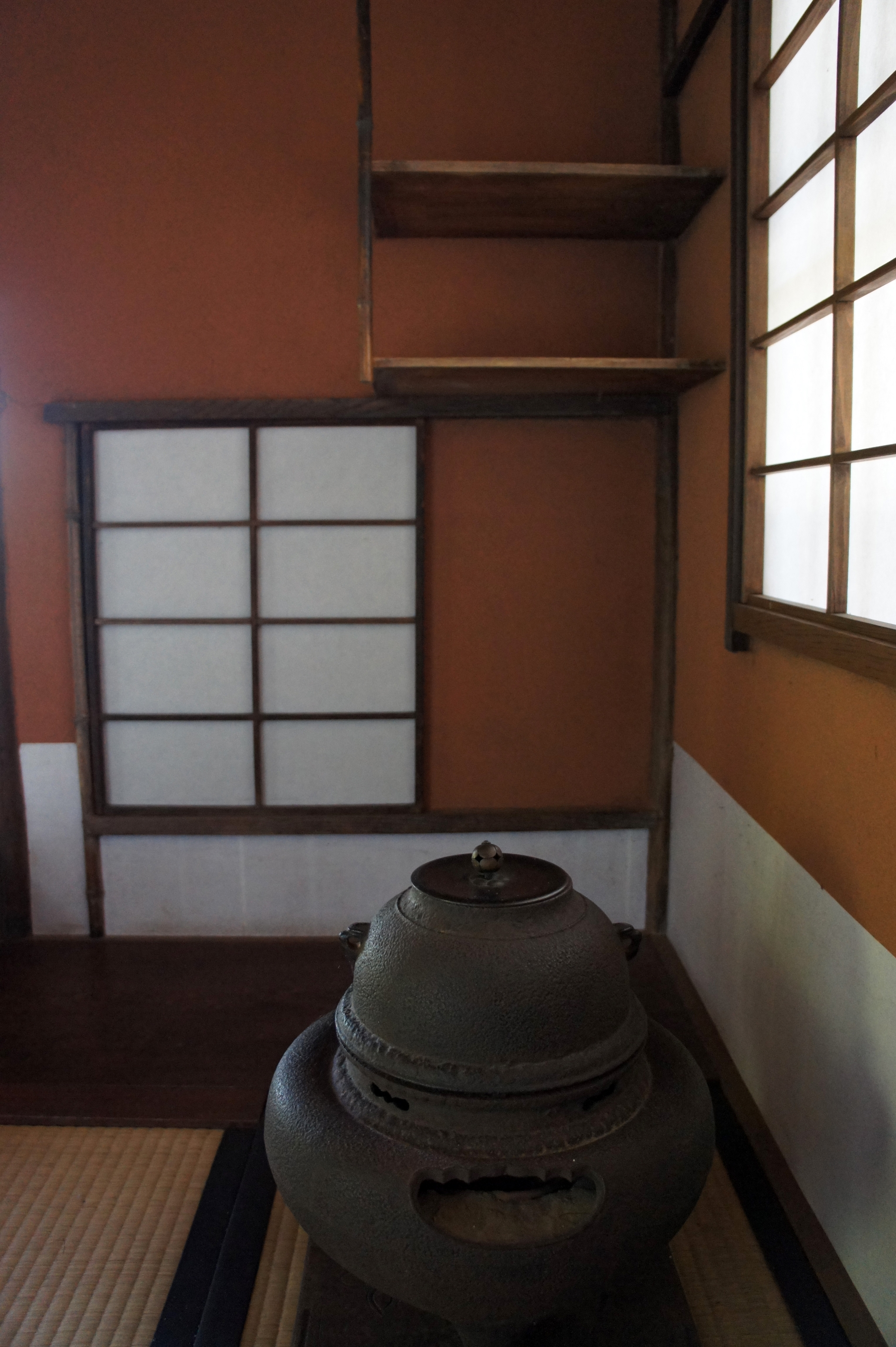 Isome-shi Garden in Otsu, Shiga prefecture, Japan.